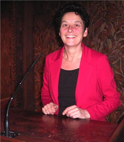 Dutch Senator Tineke Strik